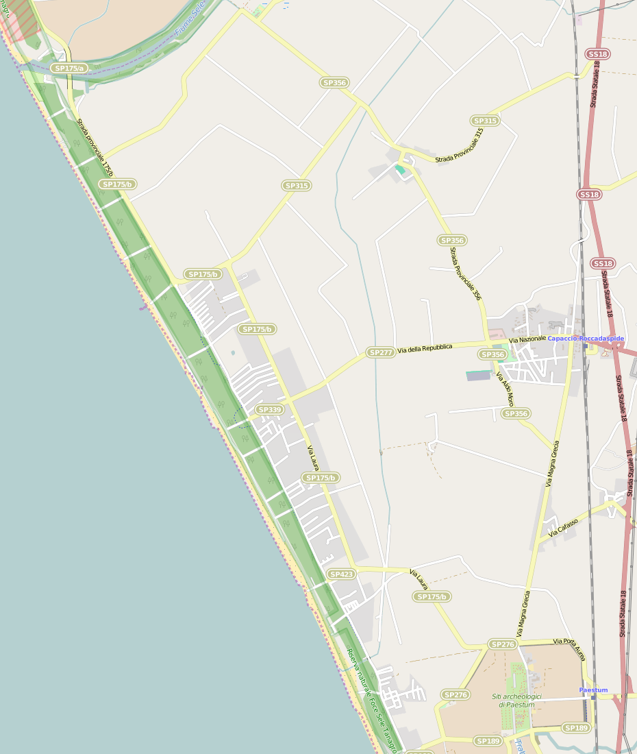 This map may be incomplete, and may contain errors. Don't rely solely on it for navigation.